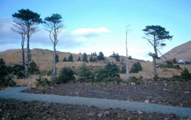 This is the site of the oldest recorded afforestation project (1805) on the North American continent, representing a Russian attempt to make the colony at Unalaska self-sufficient in timber.